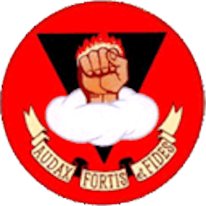 Emblem of the 505th Fighter Squadron (USAAF)